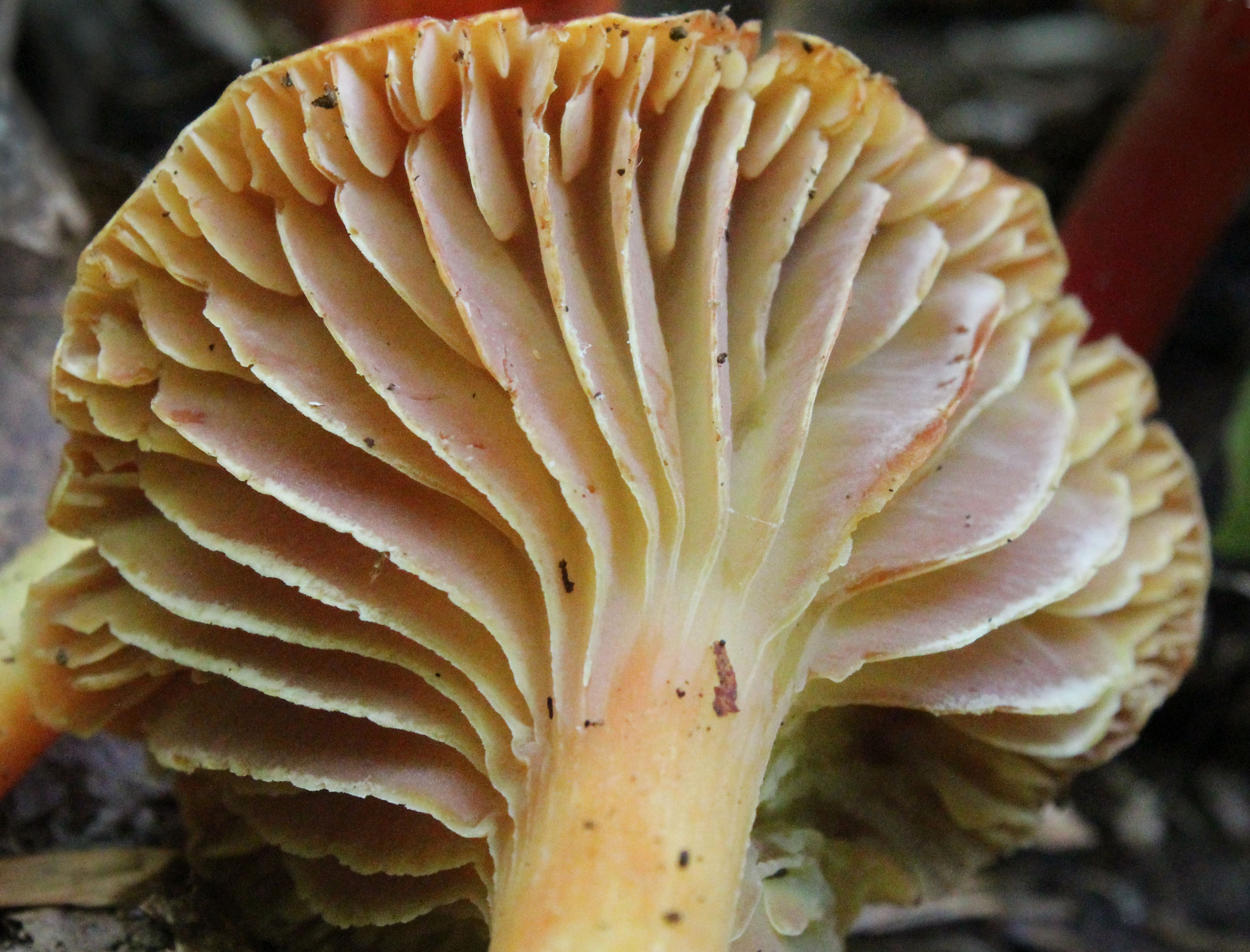 Cloesup of the gills of the mushroom Hygrocybe appalachianensis. Specimen photographed in Cherokee National Forest, Monroe Co., Tennessee, USA.